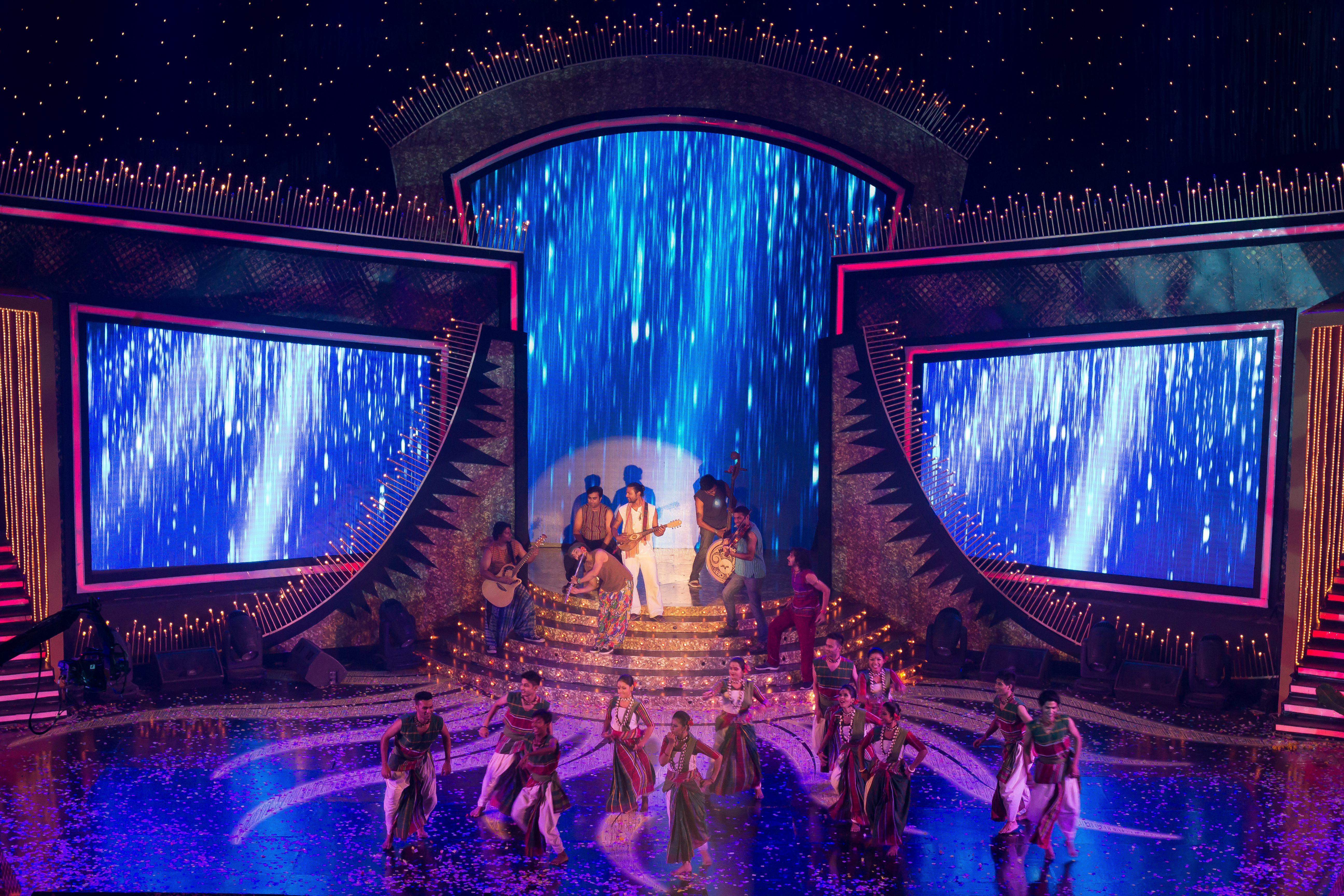 Concert of Joler Gan Band, Bangabndhu International Conference Centre (BICC)